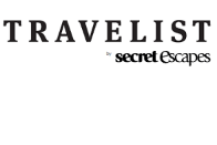 Travelist By Secret Escapes Logo